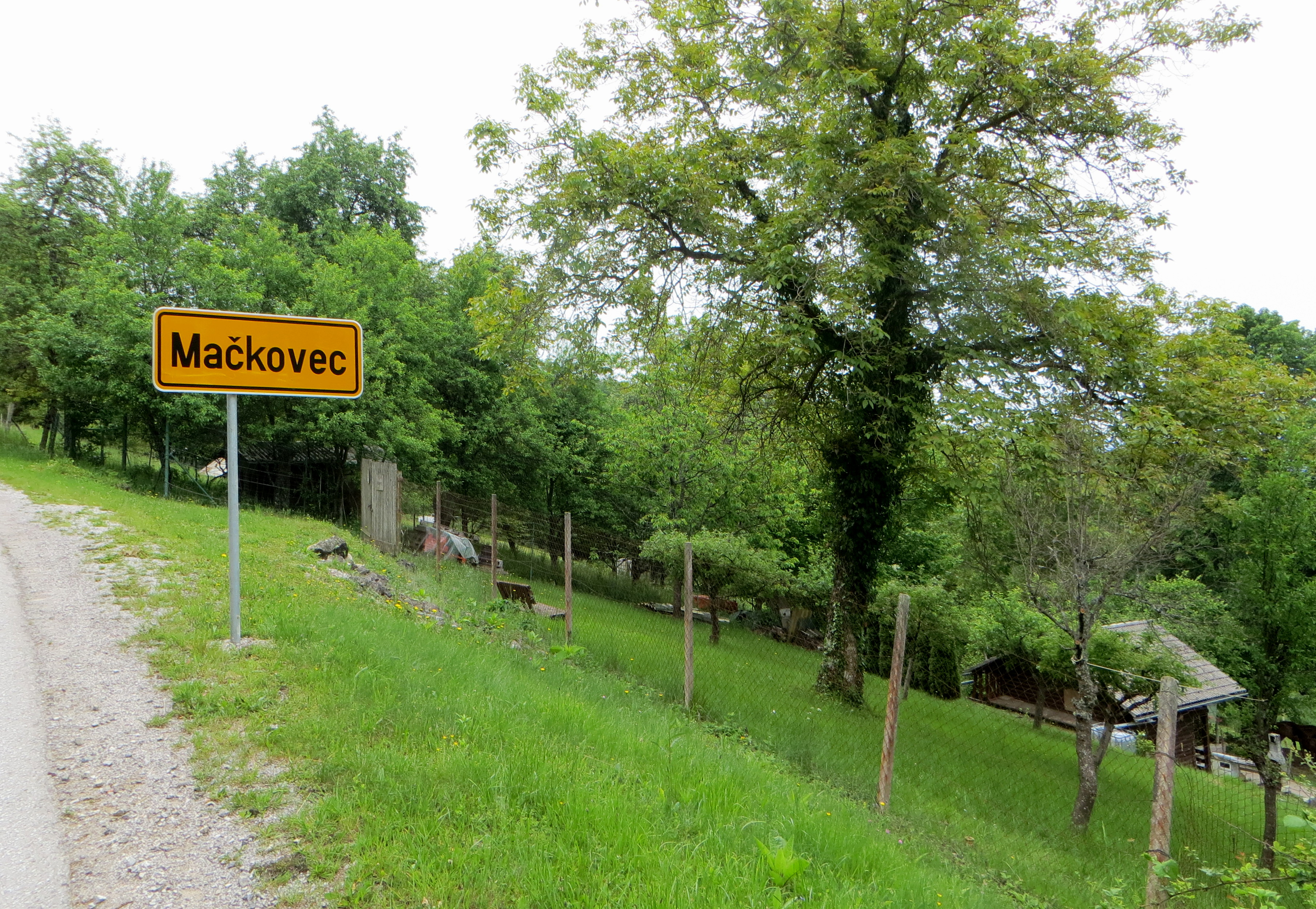 Mačkovec, Municipality of Kočevje, Slovenia